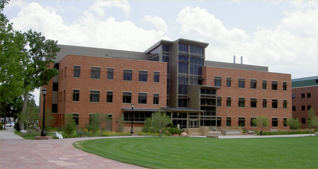 Russel T. Tutt Science Center at Colorado College, Colorado Springs